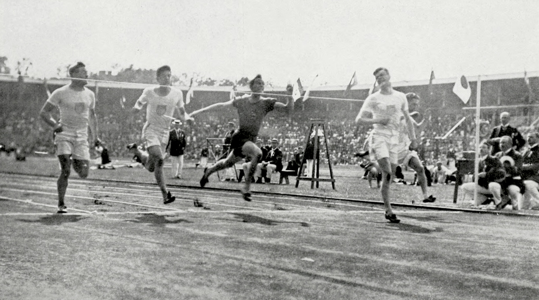 The finish of the men's 100 metre final at the 1912 Summer Olympics